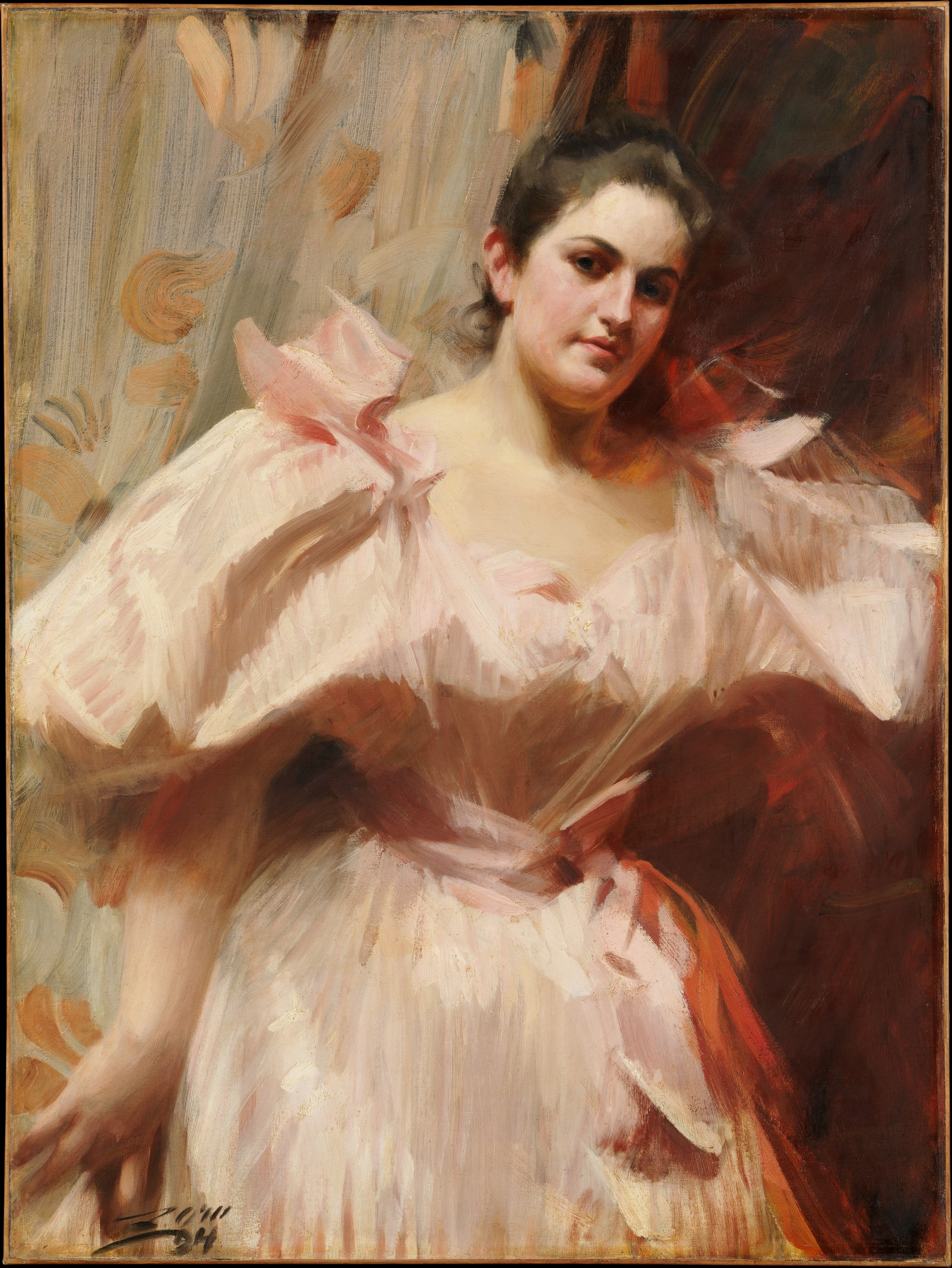 Frieda Schiff (1876–1958), Later Mrs. Felix M. Warburg Artist: Anders Zorn (Swedish, Mora 1860–1920 Mora) Date: 1894 Medium: Oil on canvas Dimensions: 39 3/4 x 30 in. (101 x 76.2 cm) Classification: Paintings Credit Line: Bequest of Carola Warburg Rothschild, 1987